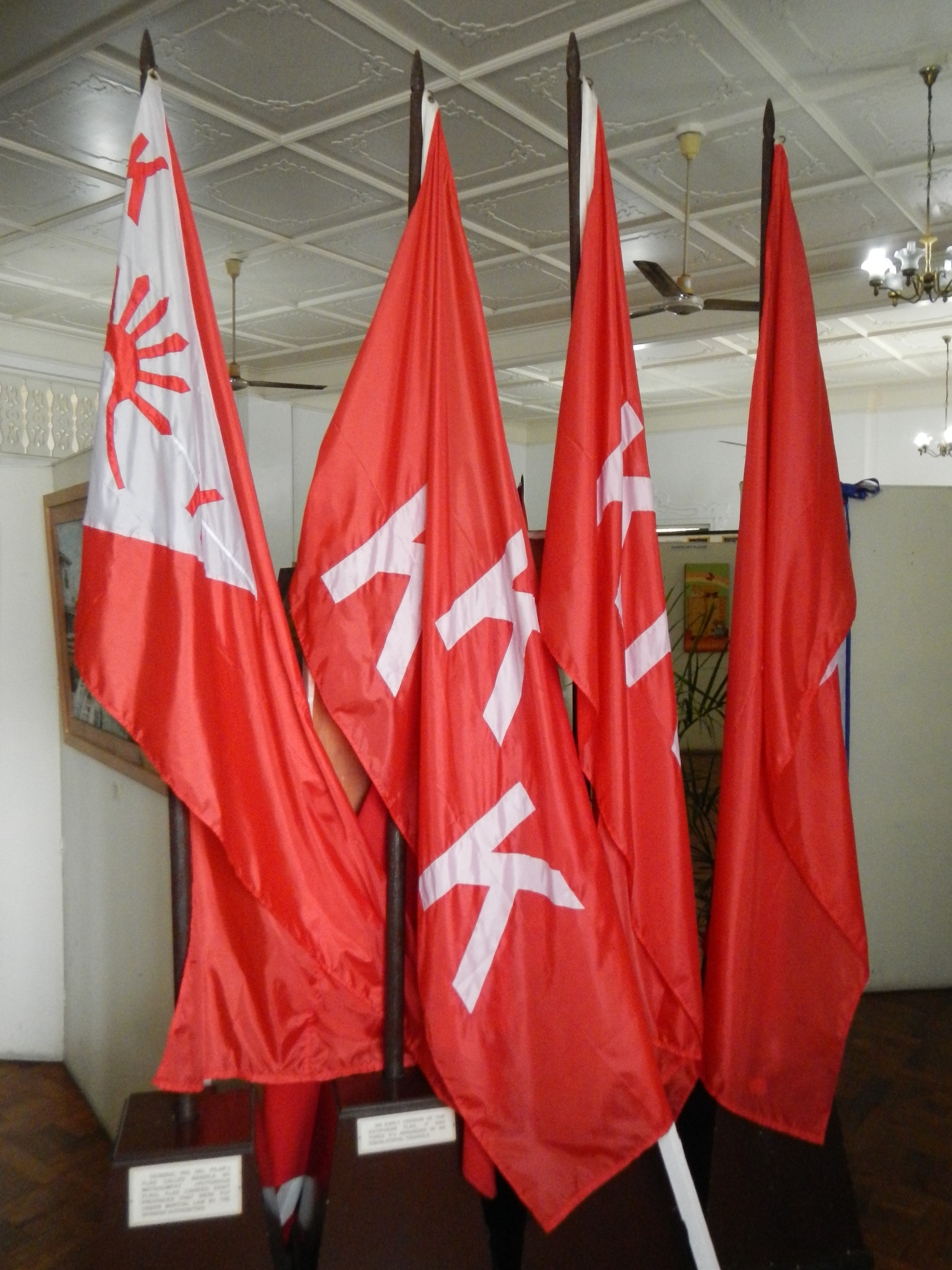 Casa Real de Malolos, Built in 1580,residence and office of the Gobernadorcillo of Malolos until 1673.It was used as Casa Tribunal of Pueblo de Barasoain in 1859.During American Occupation of Malolos,it was used again as the Municipal Hall of unified towns of Malolos,Barasoain and Sta Isabel in 1903-1940,Bulacan High School Annex in 1941.During Japanese period,served as office of Japanese Chamber of Commerce (1941–1944),in 1945 it became headquarters of Auxiliary Unit of US Army.In 1946 served as Temporary Provincial Capitol of Bulacan because the province capitol was damaged during World War II.In 1947,Bulacan Trade School,1948 a Branch of Philippine National Bank.And in 1950,Malolos Postal Office.Today it is a Museum maintained by the National Historical Institute containing artifacts and memorabilia holding relics of the 21 Women of Malolos. [1]